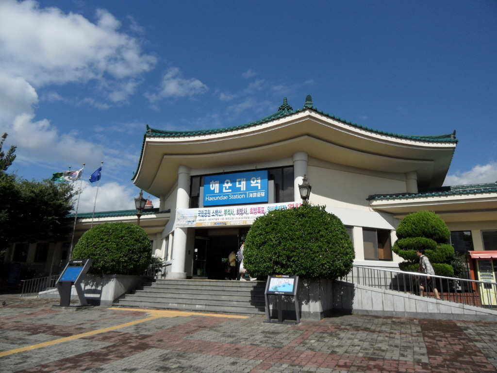 Korail Haeundae Station